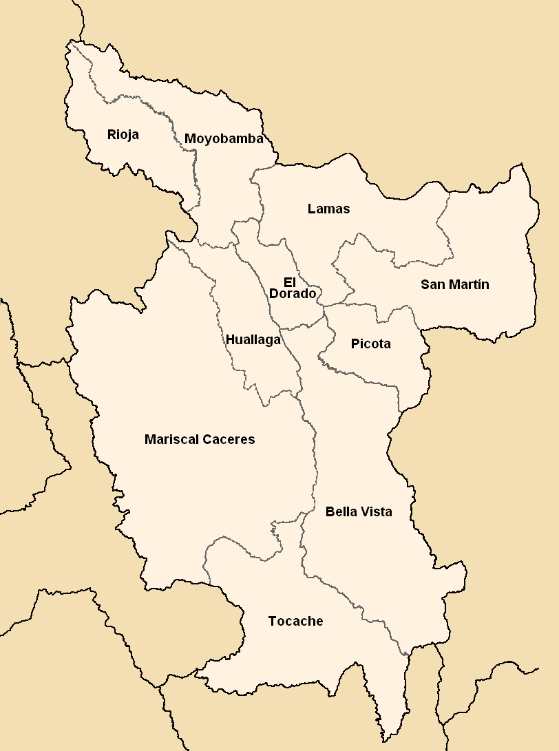 Provinces of the San Martín region in Peru (Map)